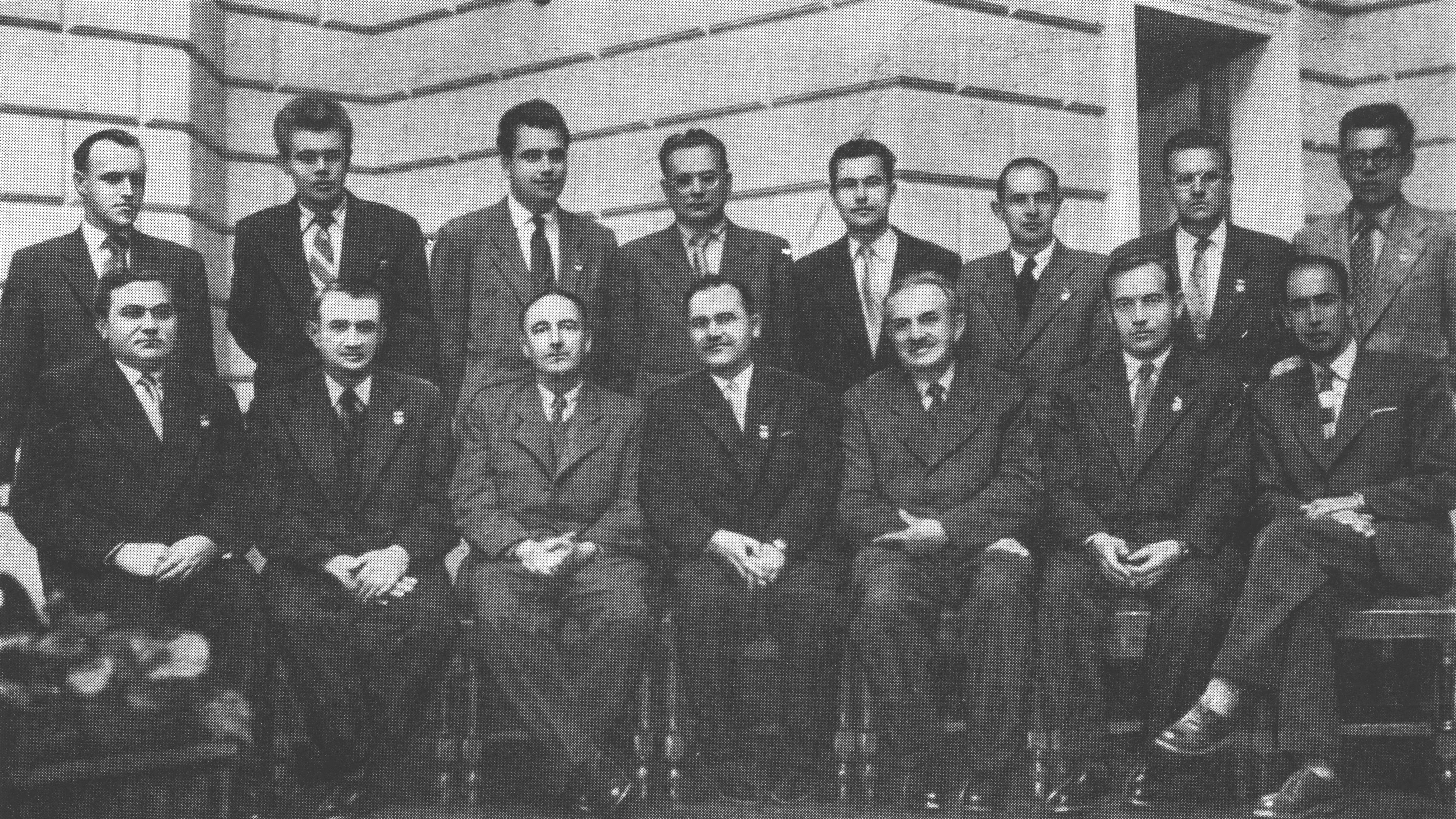 Congress delegates from Czechoslovakia, the Carpathian-balkan geological association in Lviv, 1958.